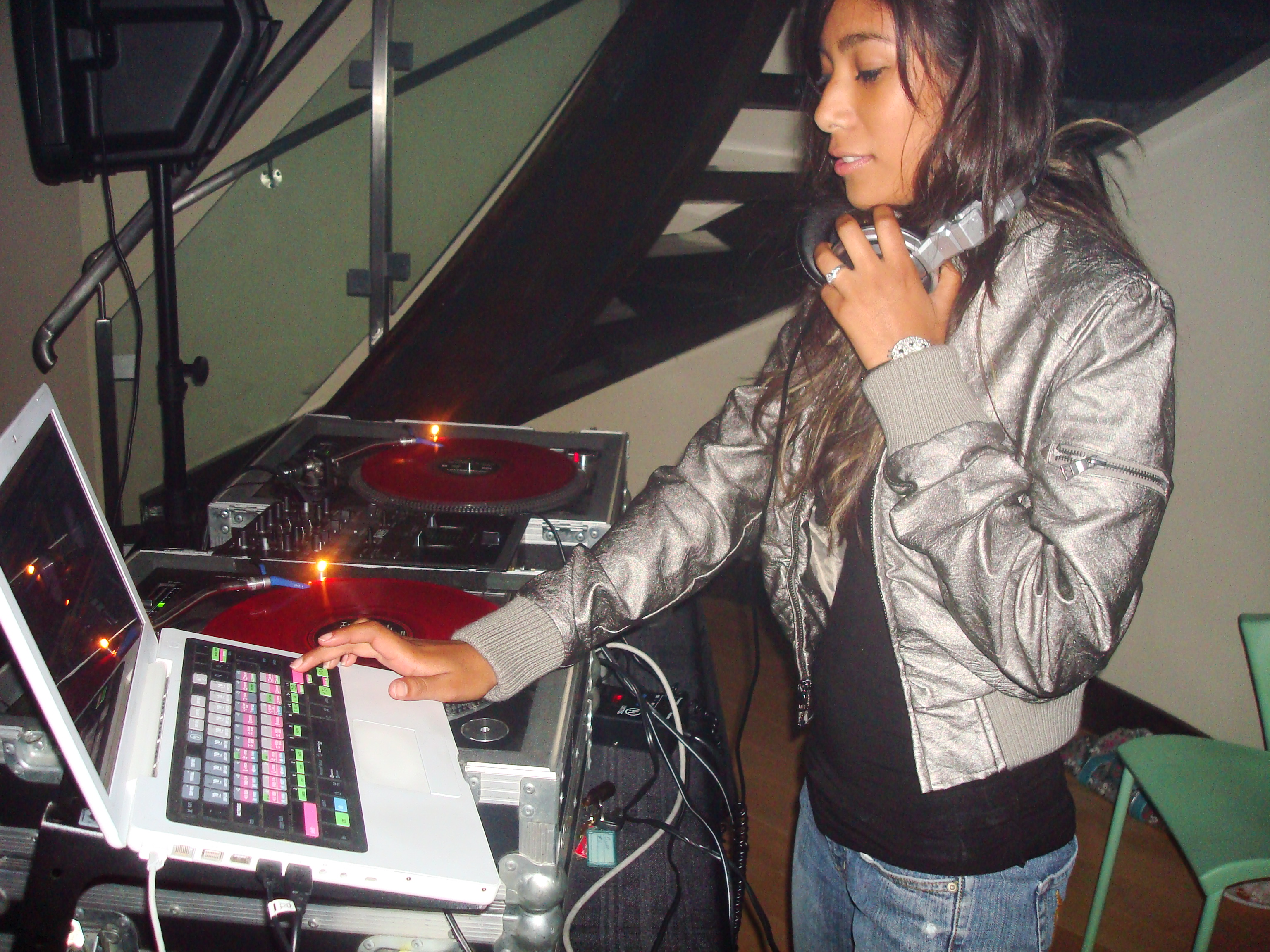 Mobile DJ